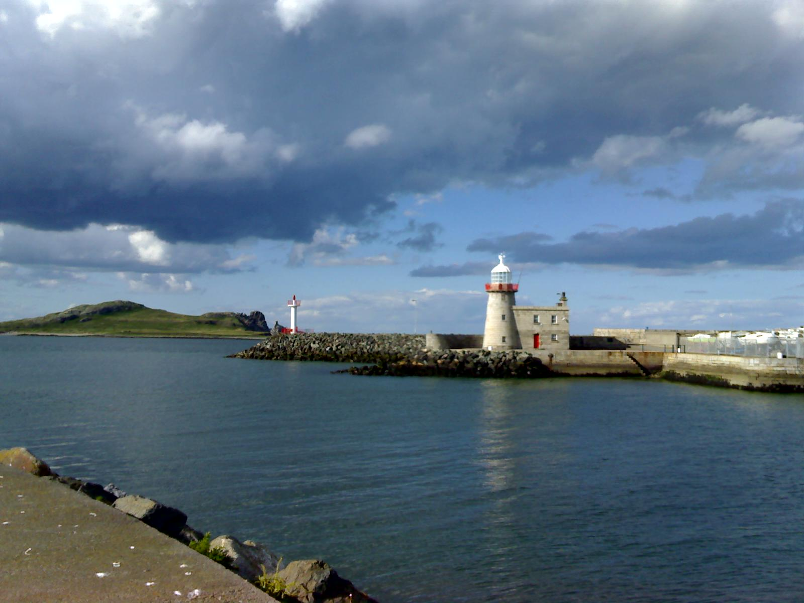 Howth Harbour Lighthouses